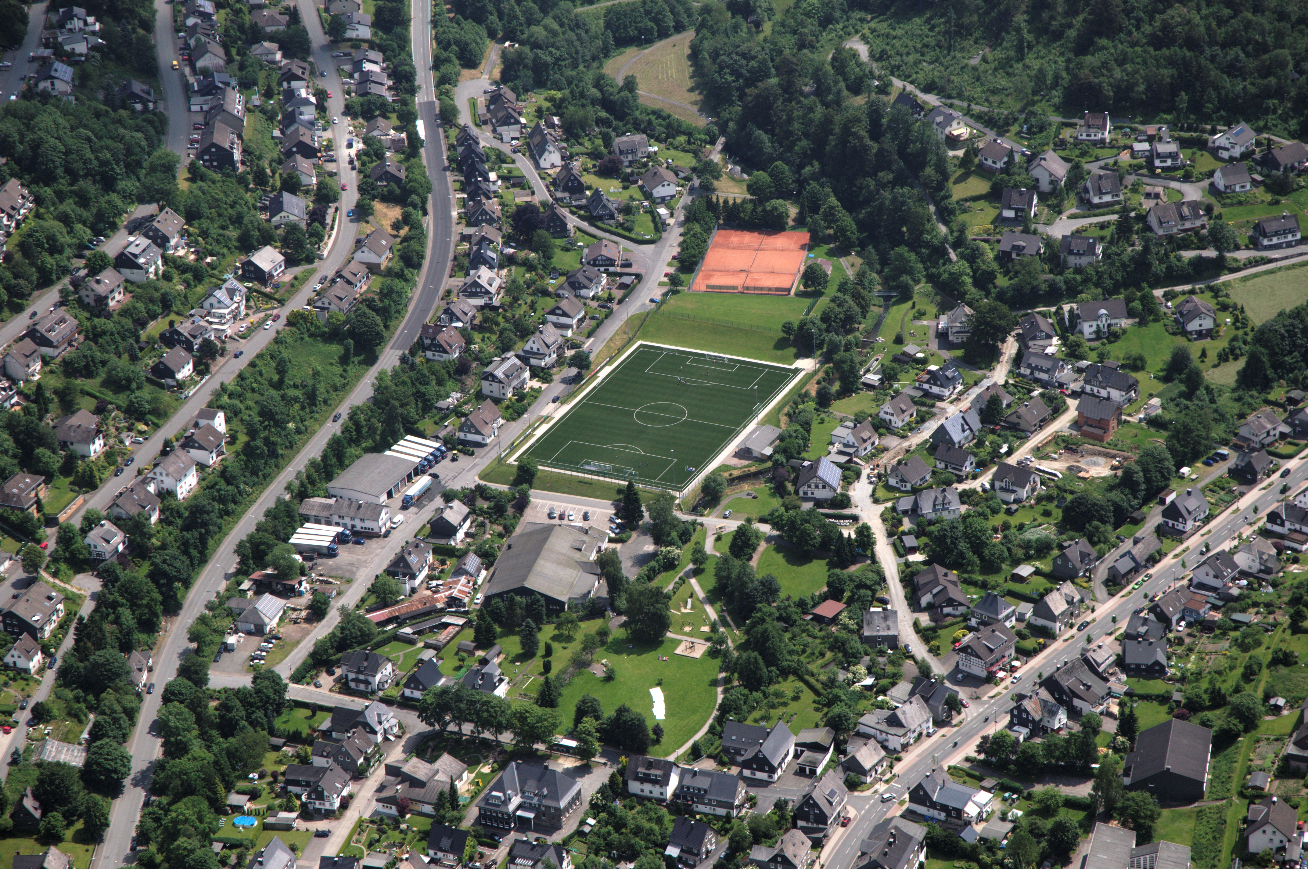 Fotoflug Sauerland-Ost: Niedersfeld, Sportplatz The making of this document was supported by the Community-Budget of Wikimedia Germany.